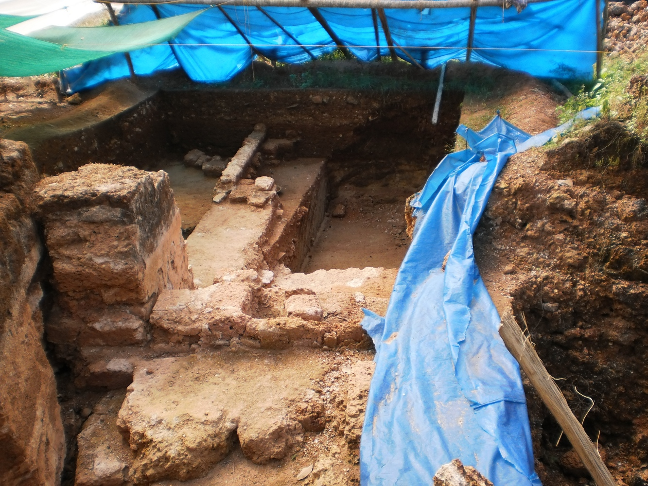 Kottappuram Fort under excavation Muziris Heritage Project